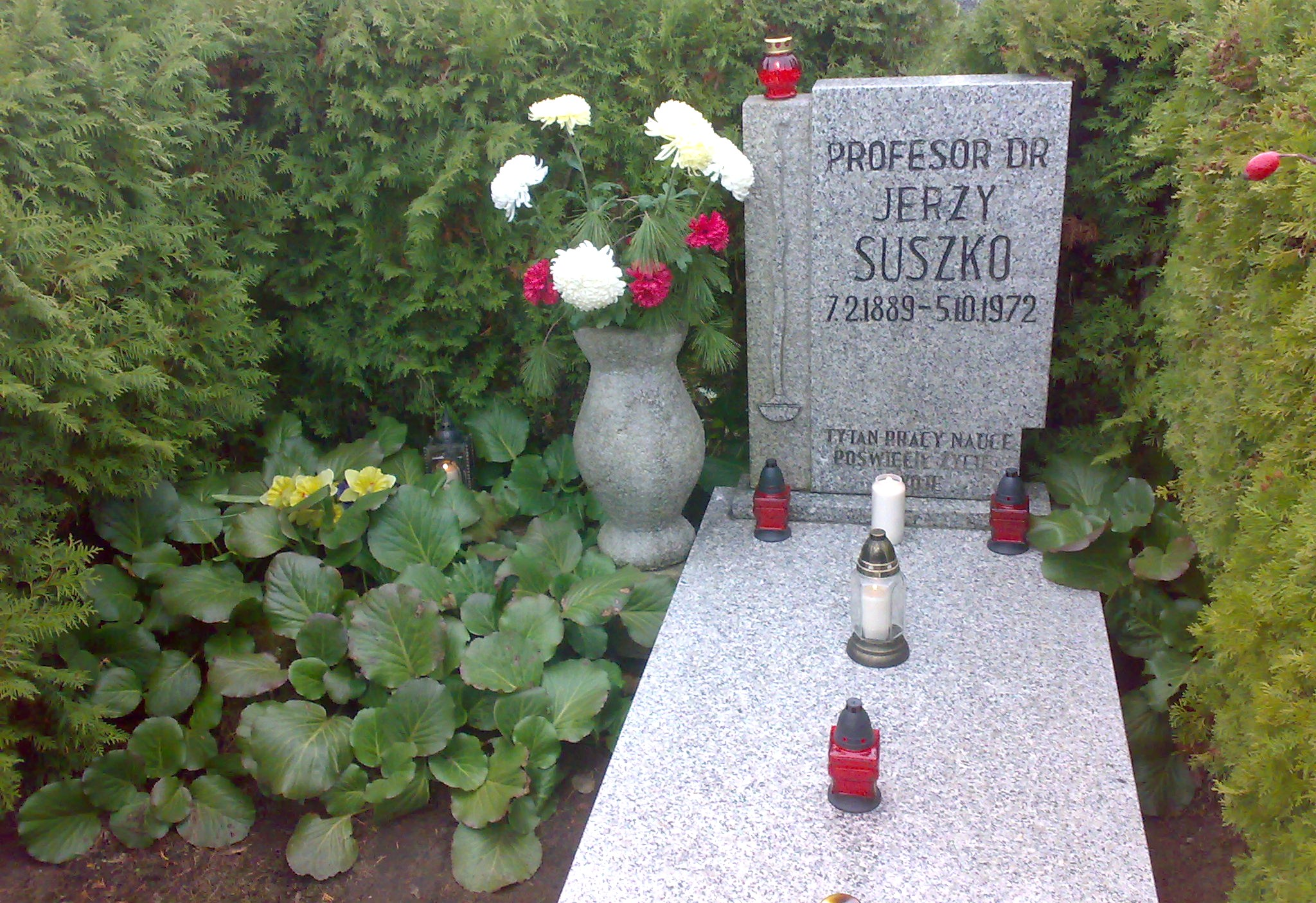 Tomb of Jerzy Suszko (chemist) in Junikowo-Nekropoly in Poznan.